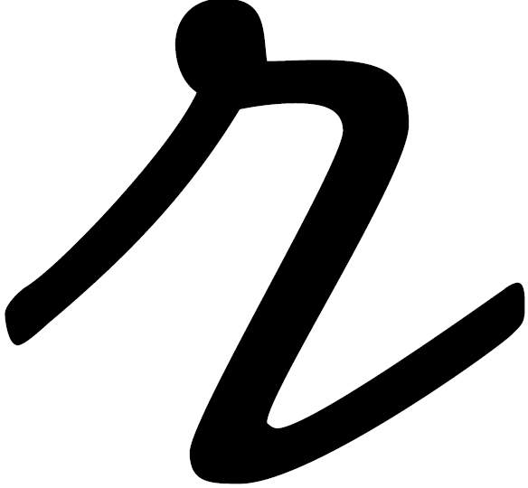 The script-r used in "Introduction to Electrodynamics" by David J. Griffiths